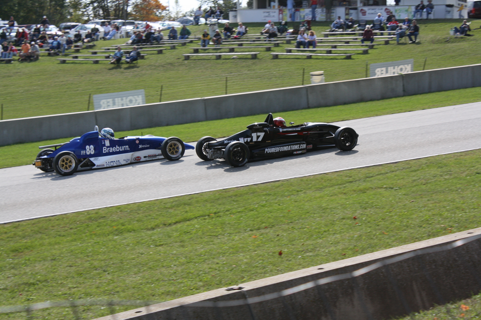 The top two FF (Formula Ford) drivers battling for the lead at the 2009 Sports Car Club of American National Runoffs. They ended up taking each other out and the third place driver won.